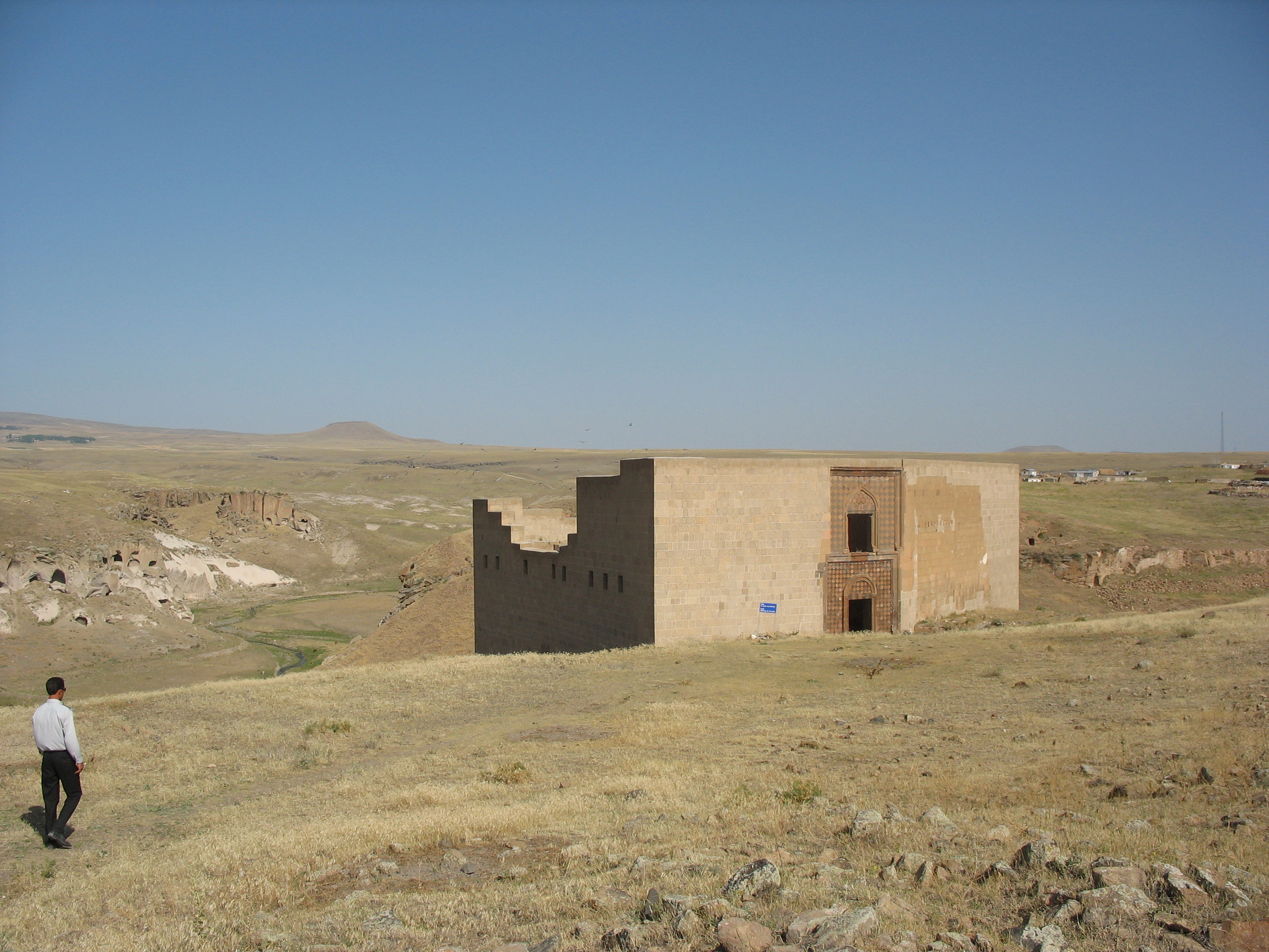 The Palace, Ani, Turkey.